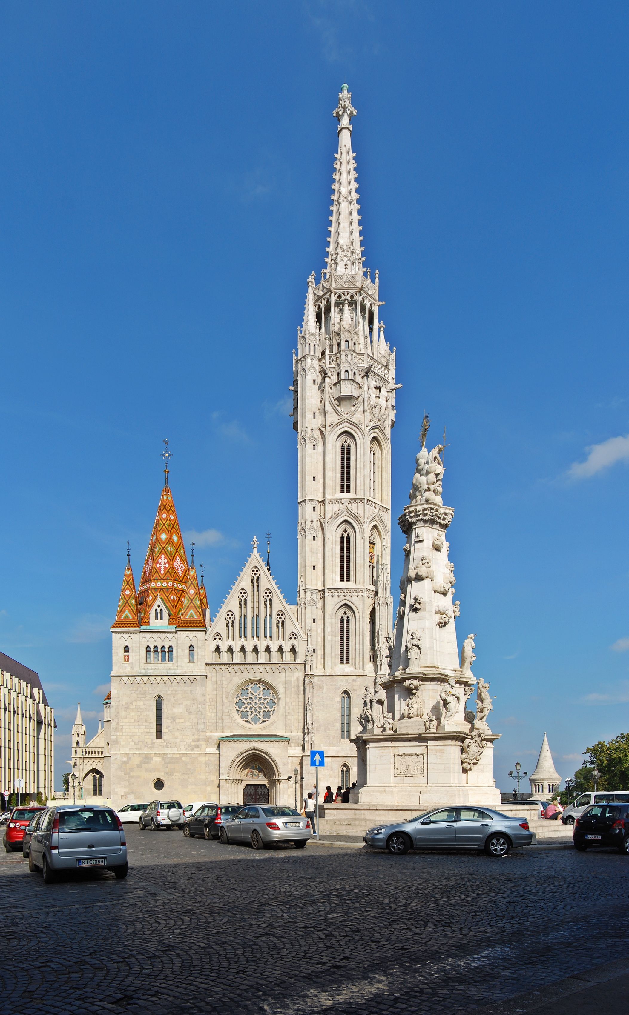 Matthias Church in Buda's Castle District, Budapest.